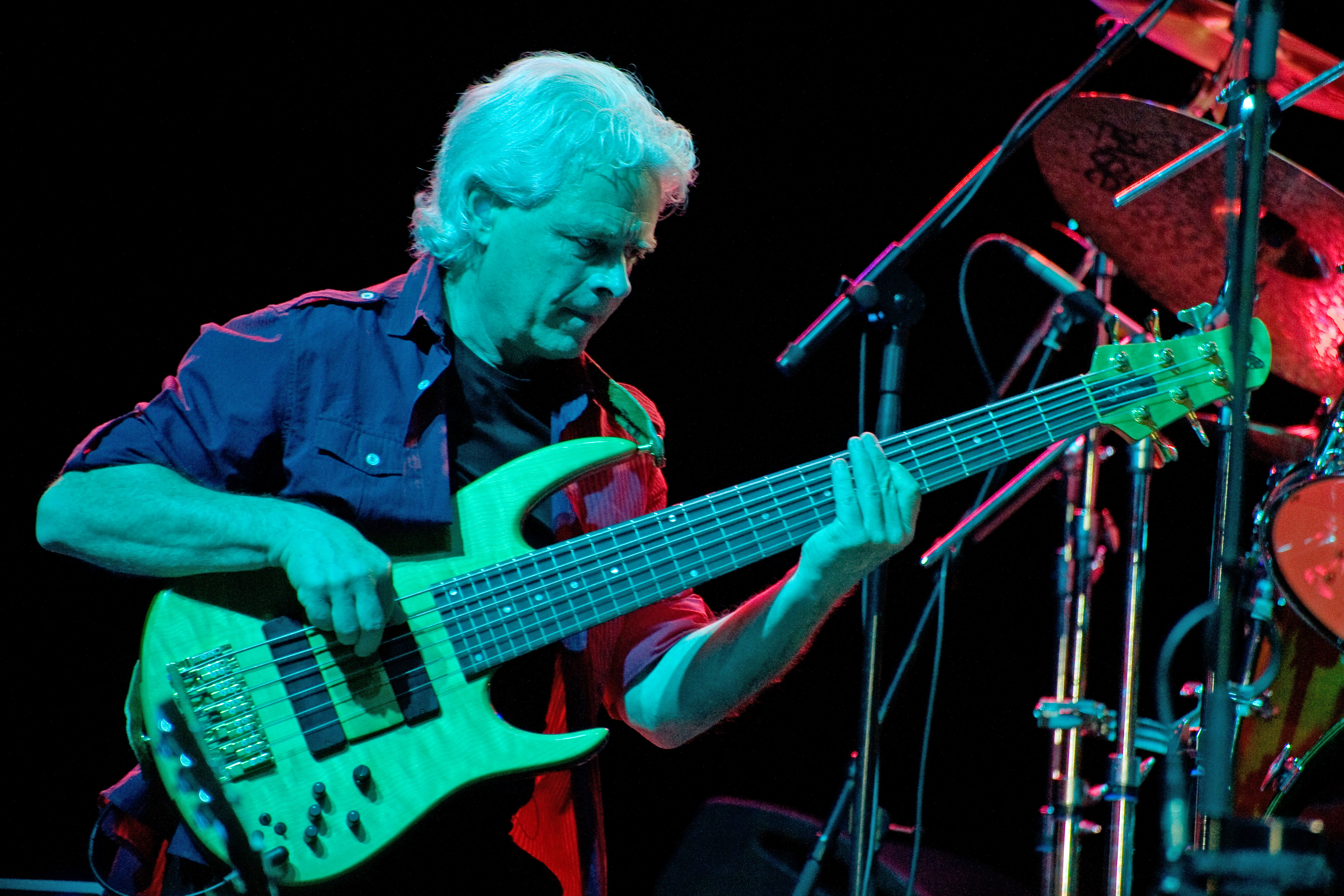 David Goodier performing with Jethro Tull in Genova, 14/05/2010